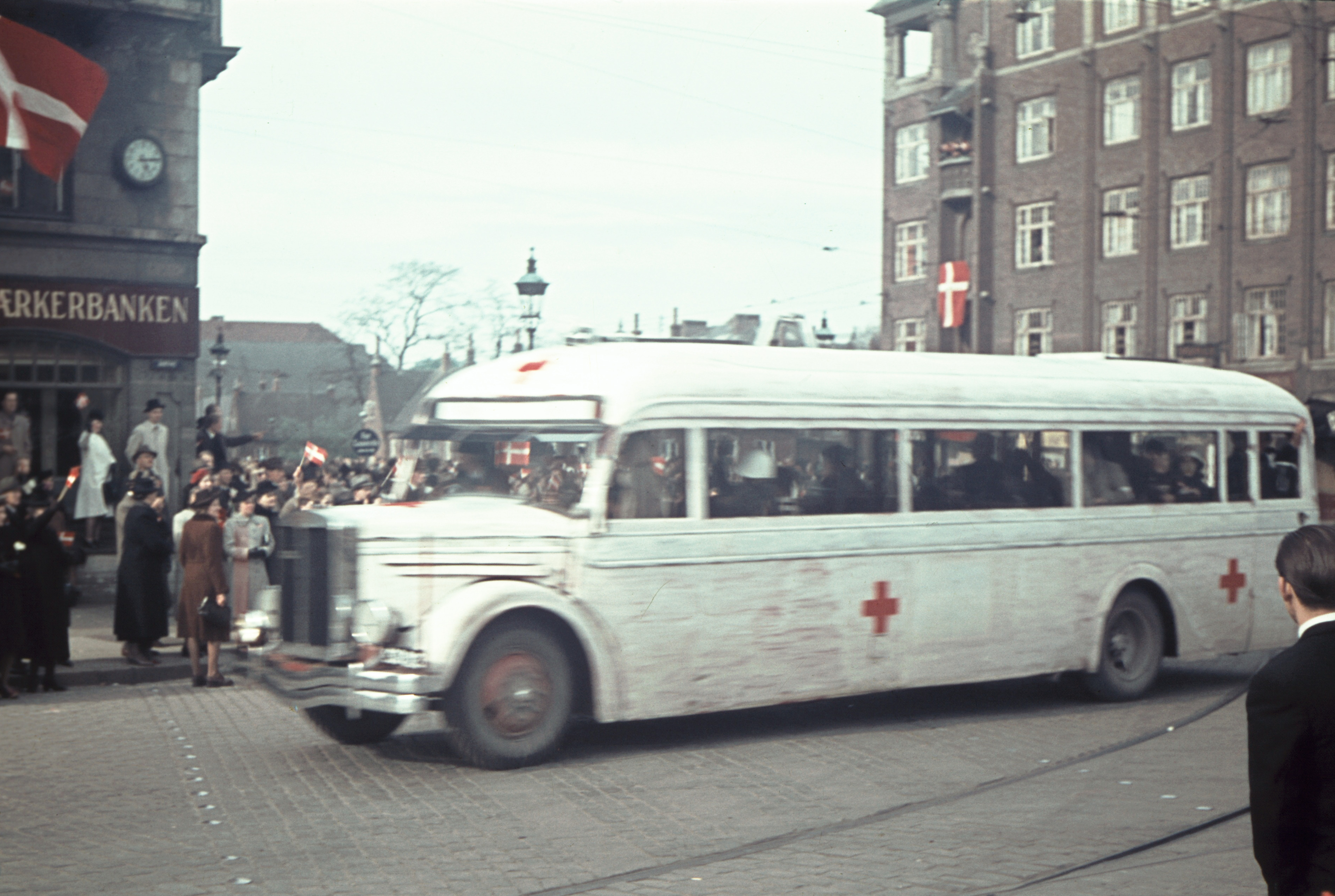 The National Museum of Denmark is currently seeking individuals stories and objects associated with the White Buses, who rescued over 17,000 people out of the concentration camps in Germany during World War II. The aim is a special exhibition to mark the 70th anniversary, and to tell the story about kindness and citizenship in a time of war, insecurity and fear.